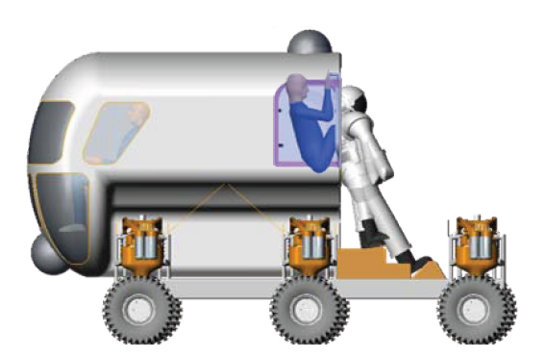 Astronaut shown entering a spacesuit.